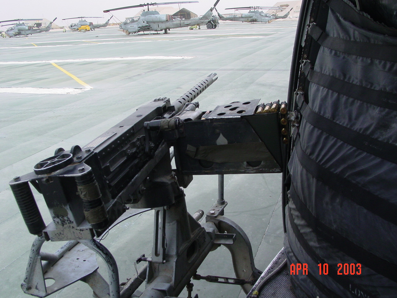 Taken by User:Looper5920 in Iraq in 2003